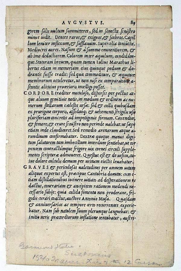 From the source page: 1540 A. D., France. Suetonius’ Lives of the Twelve Caesars. Printed by Robert Estienne. The types of Claude Garamond, here used in the italic. Were to become dominant in France and to assume an important place in the typeface of the Western world. More recent scholarship by Vervliet and others suggests that it is not clear that this font was cut by Garamond.